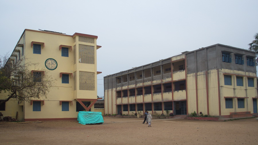 Bishop Urban School at Sahebgunj, Bhagalpur